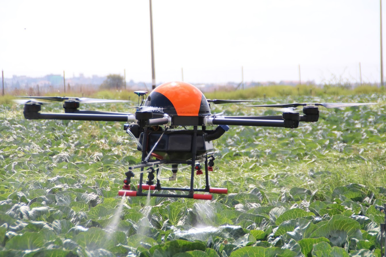 A drone intended for agricultural use. The drone which can carry 25 kg, can be changed according to customer's requirements such as rescue missions, cleaning solar panels and transporting blood transfusions.